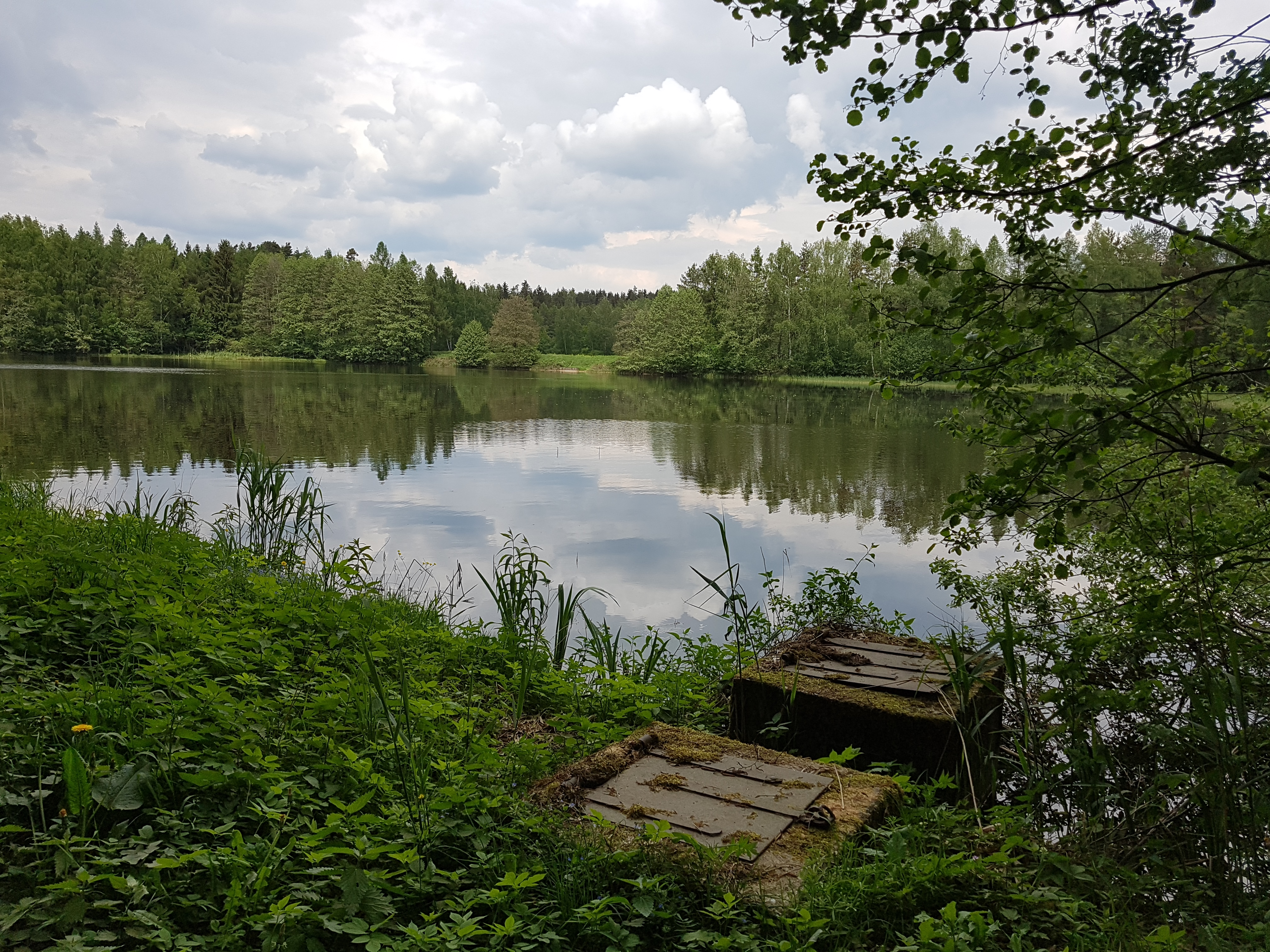 nature reserve haidenaab